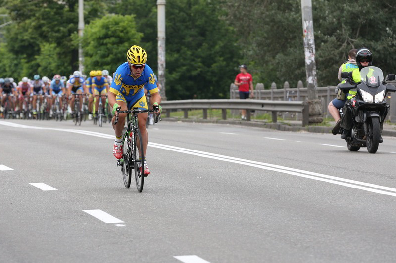 Мотохелп на Race Horizon Park